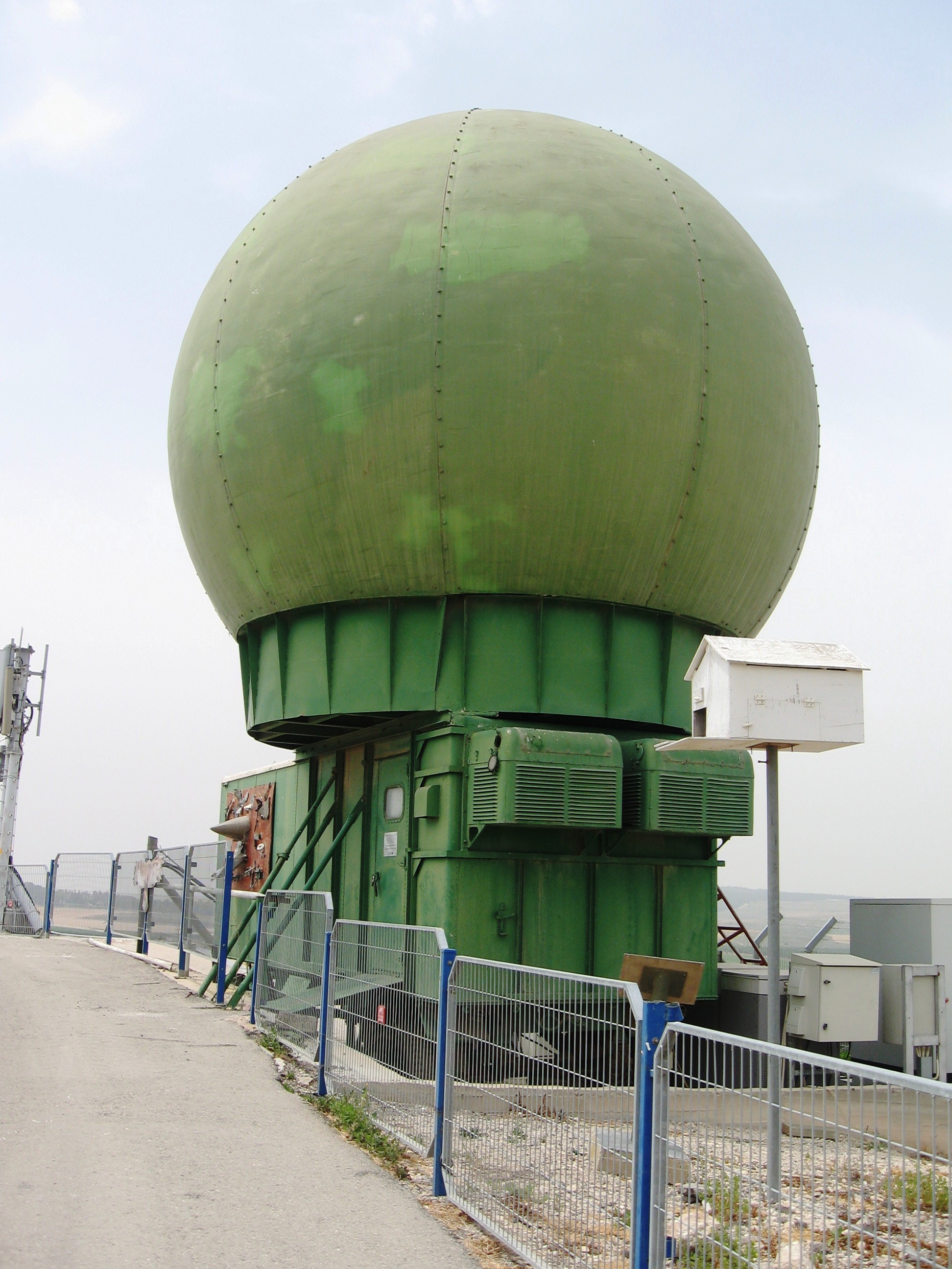 Latrun radar give information about migrating birds at a radius of 50 km around the